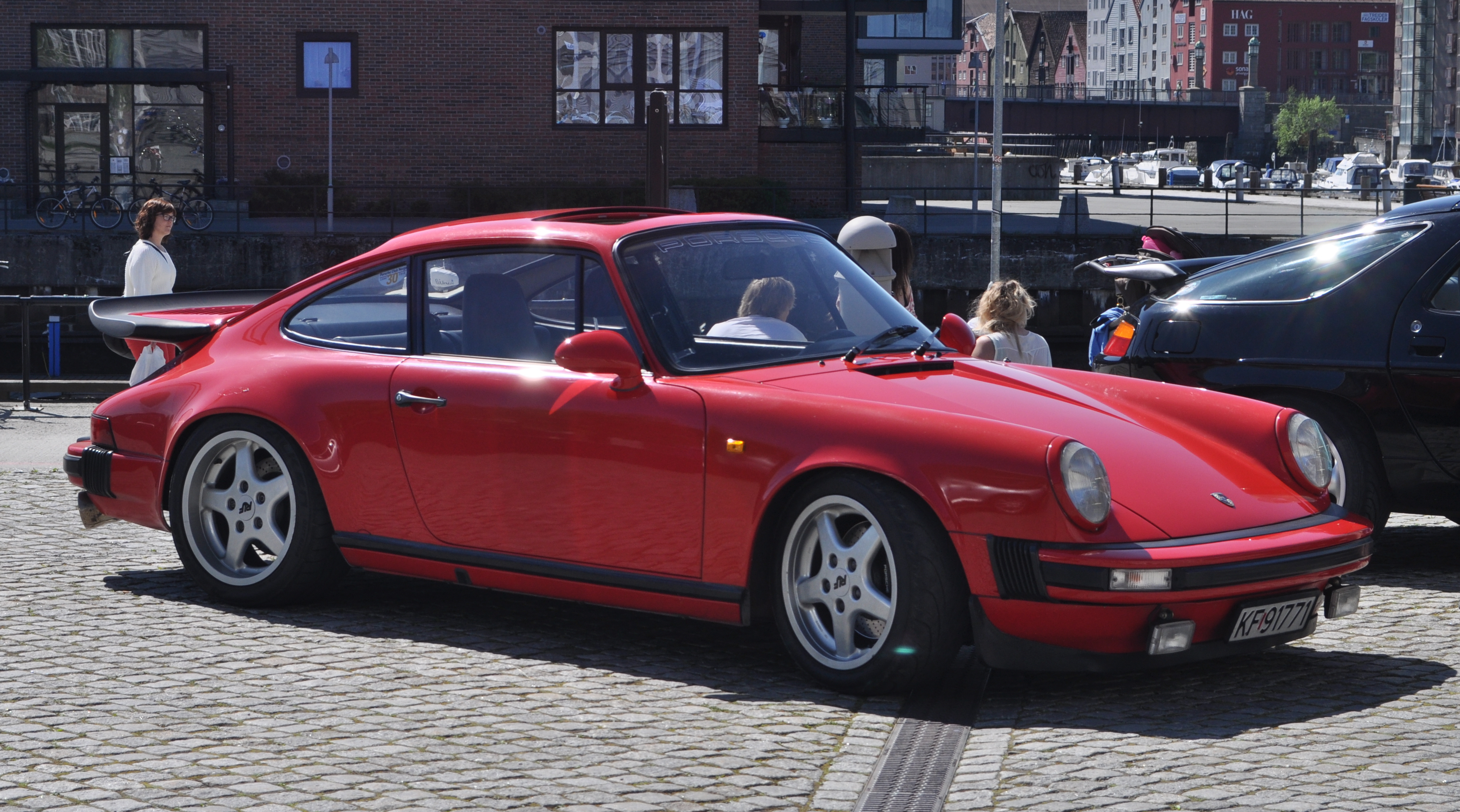 Porsche in Trondheim